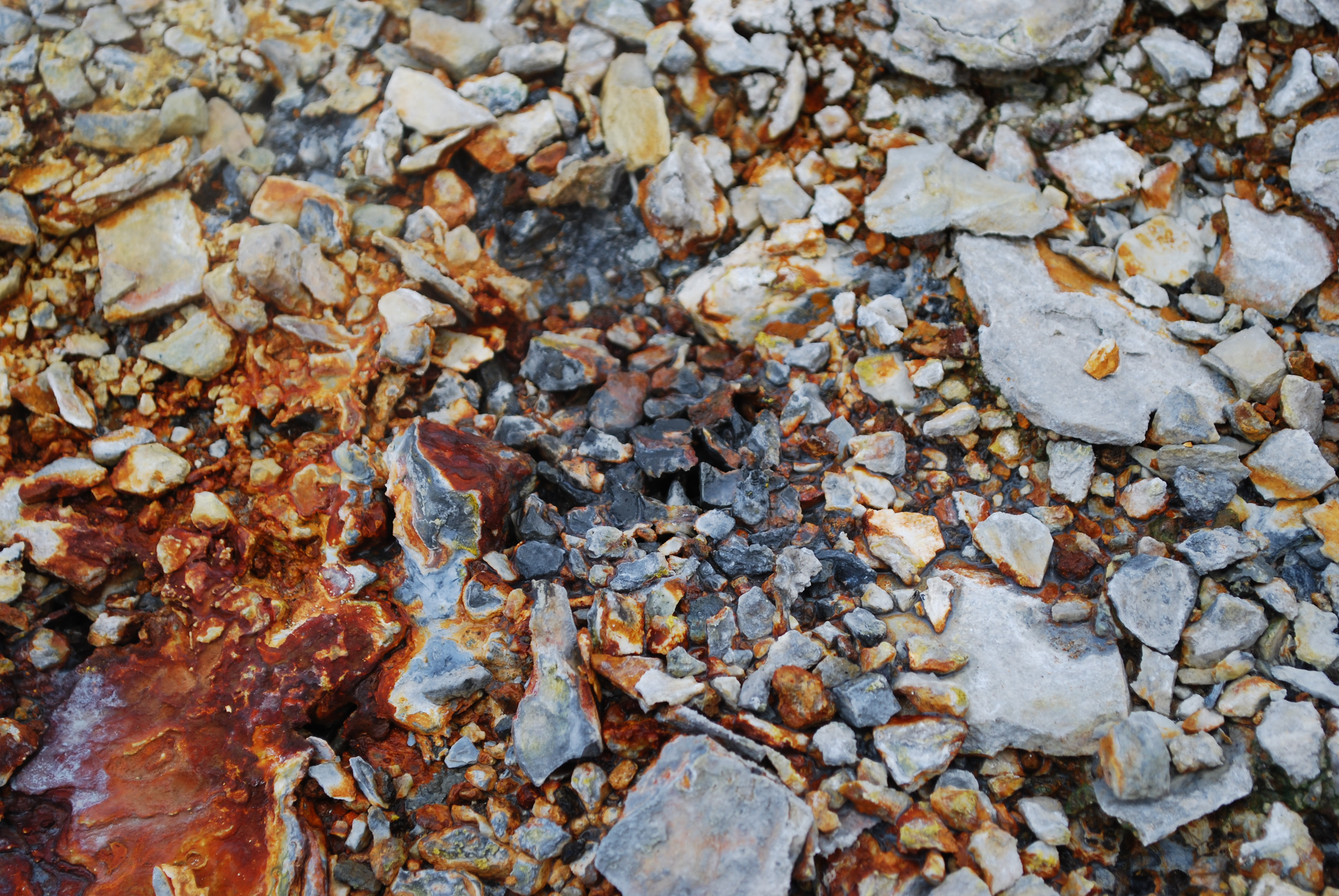 Kaldaklofsfjöll mountain range during path to Landmannalaugar, Iceland